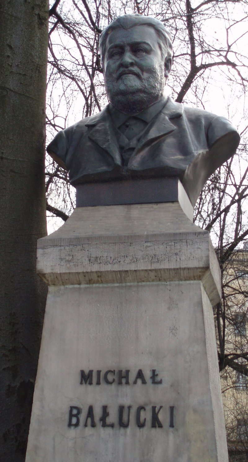 Michal Balucki, monument in Cracow, Poland